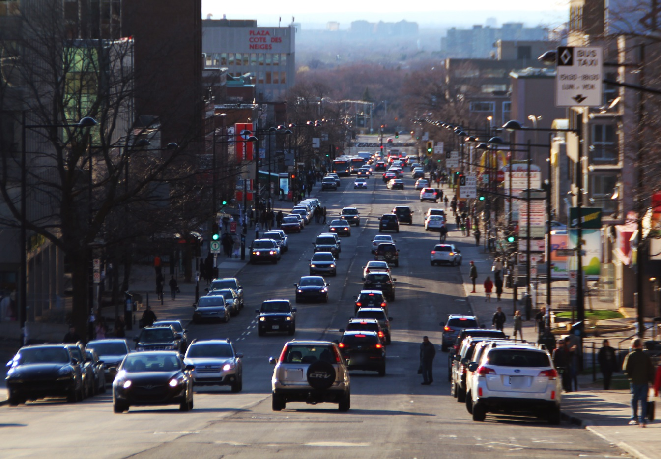 Chemin de la Côte-des-Neiges vers le Bas de la Côte